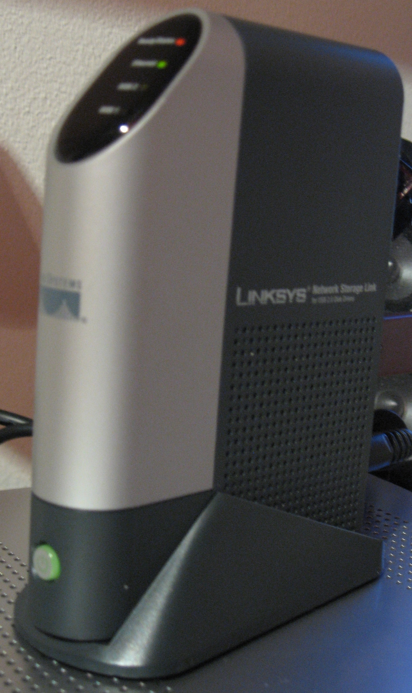 Photo of "Linksys NSLU2"